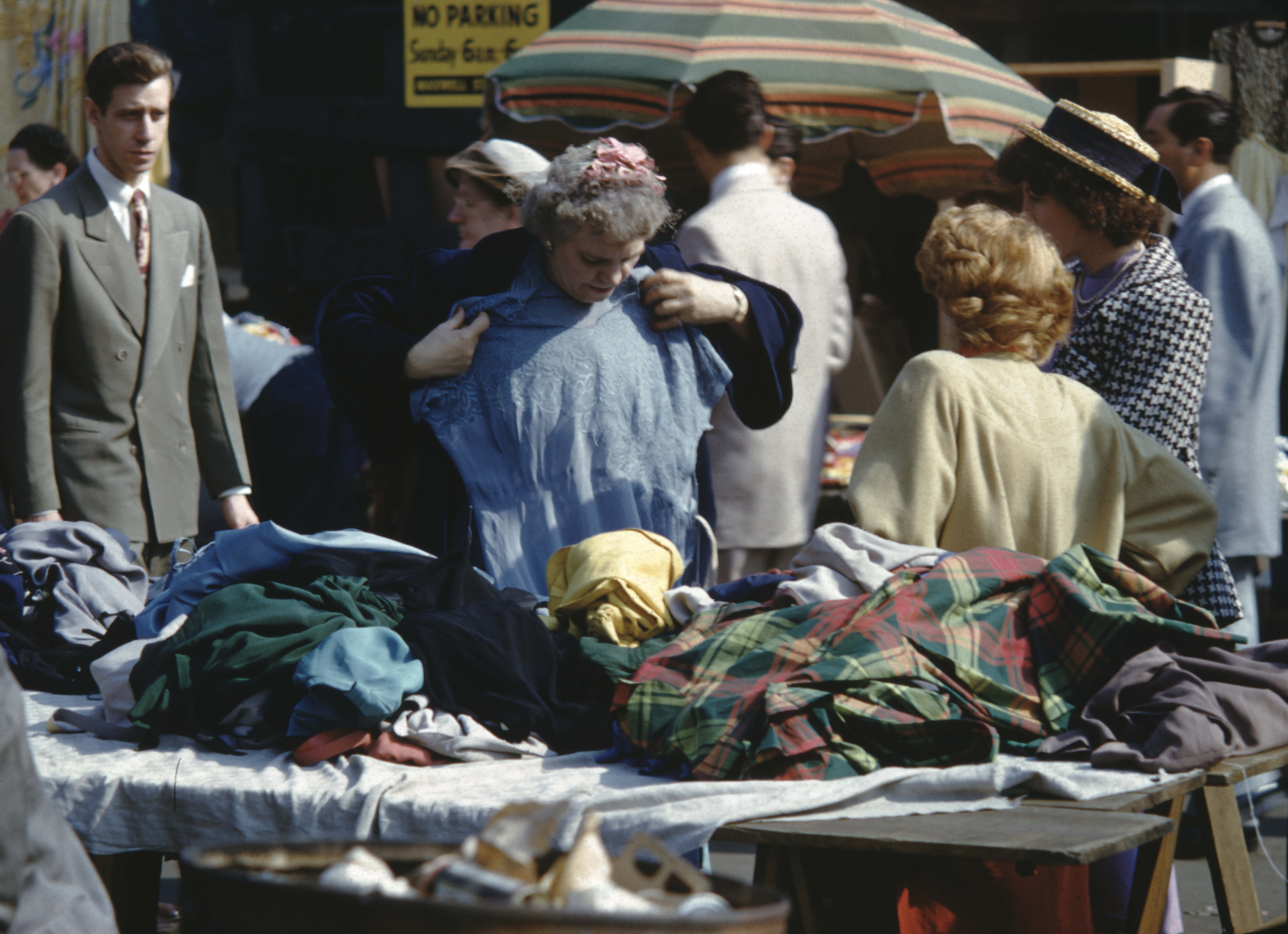 Photography by Victor Albert Grigas (1919-2017)